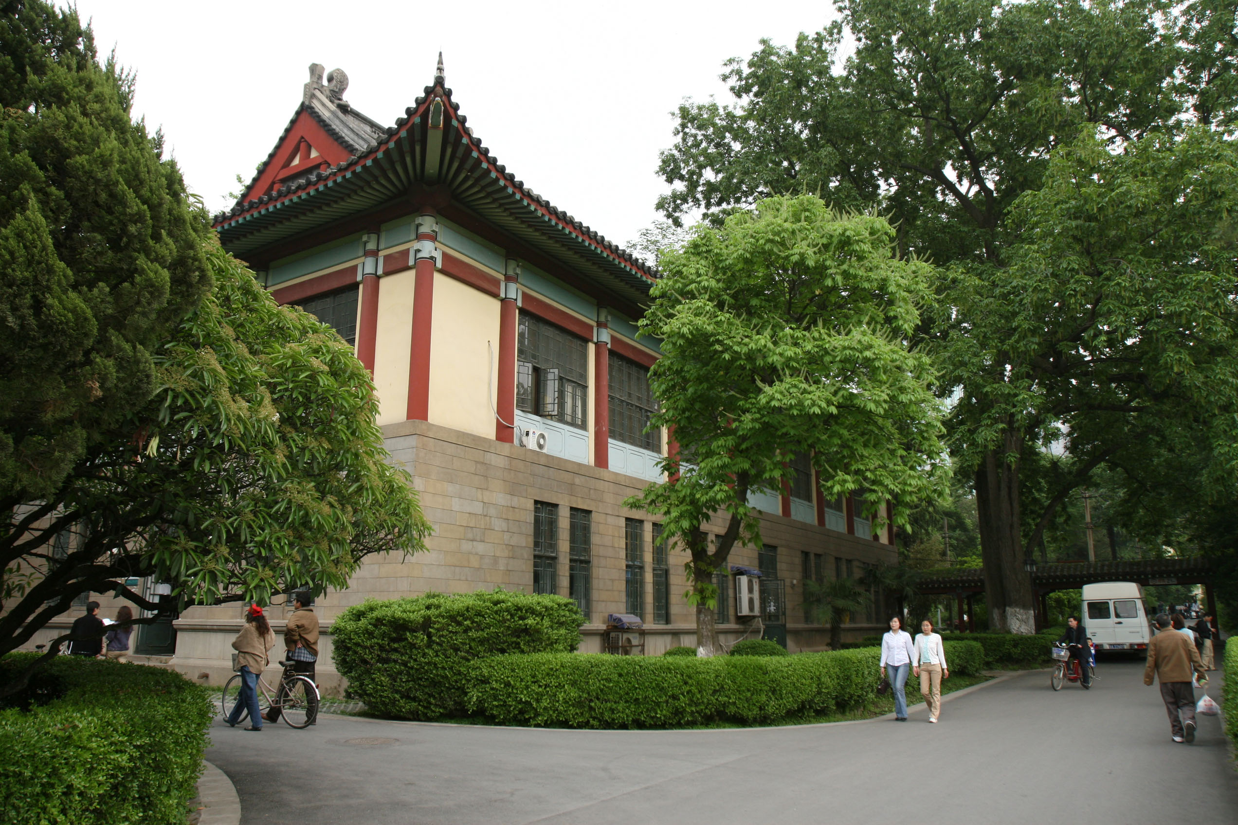 Nanjing Normal University;南京师范大学's corner1